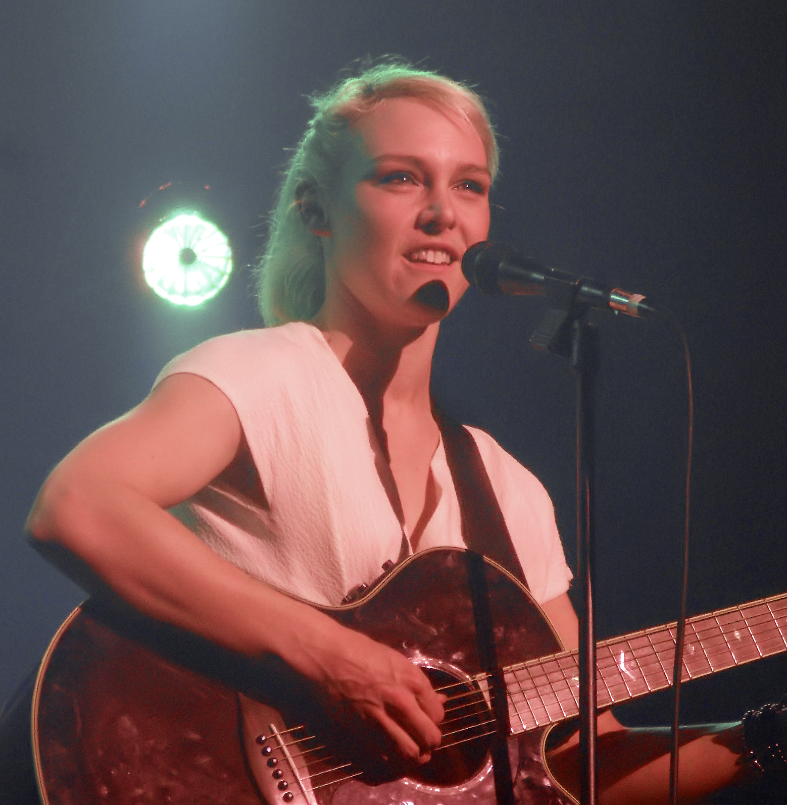 Dutch singer Wende Snijders in the HMH, Amsterdam, December 3, 2009